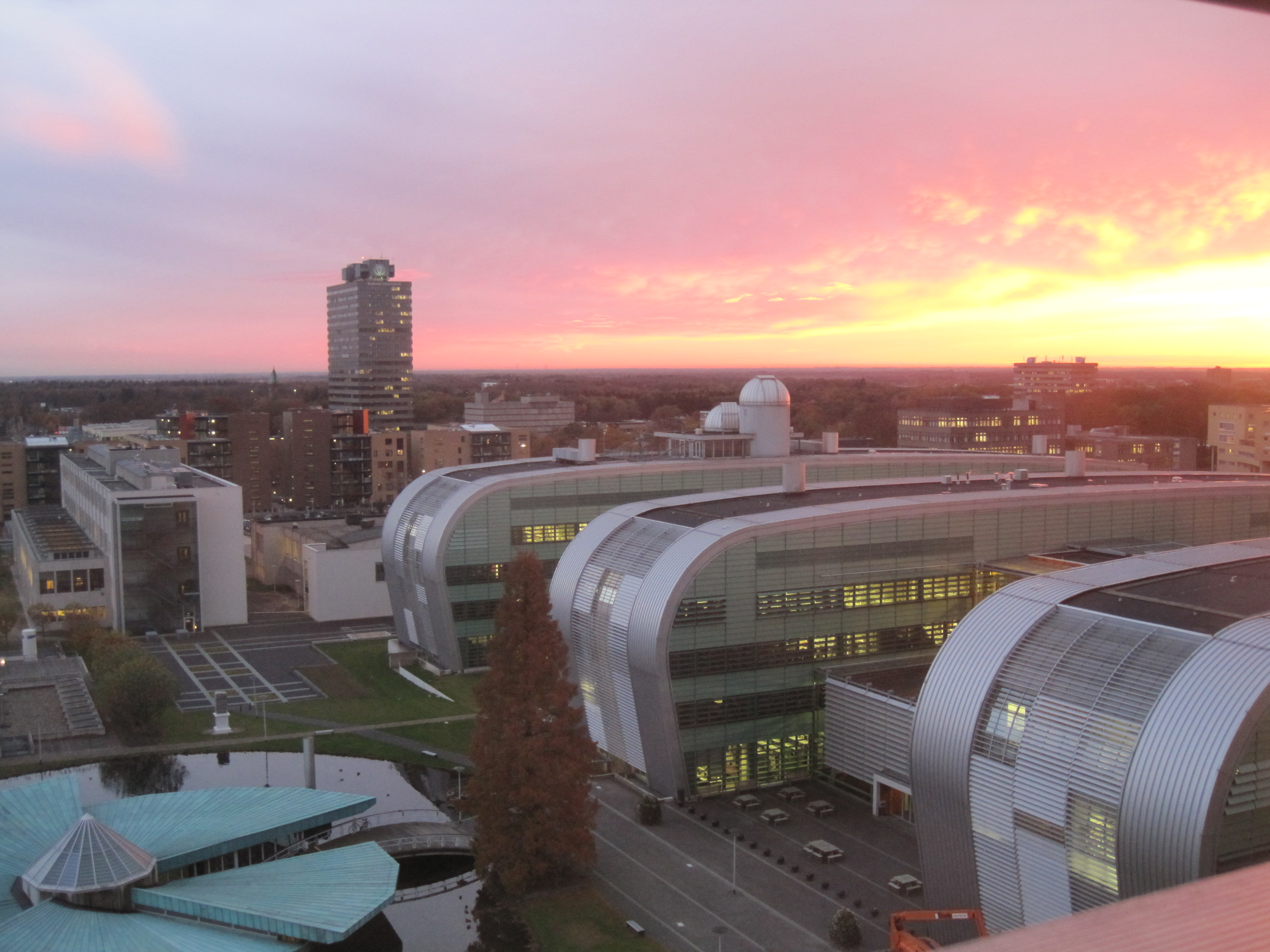 Radboud University Nijmegen science-park view from Mercator II building, Nijmegen, the Netherlands